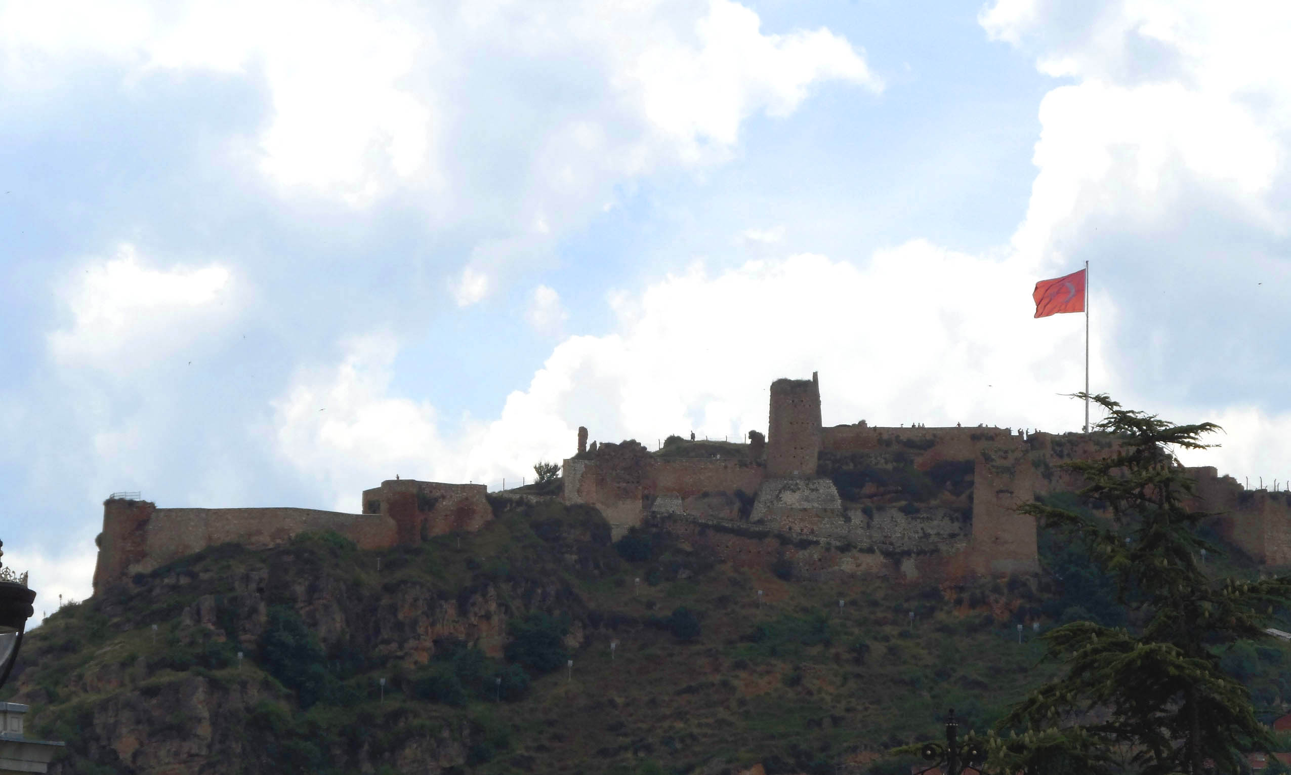 Kastamonu Castle, Turkey